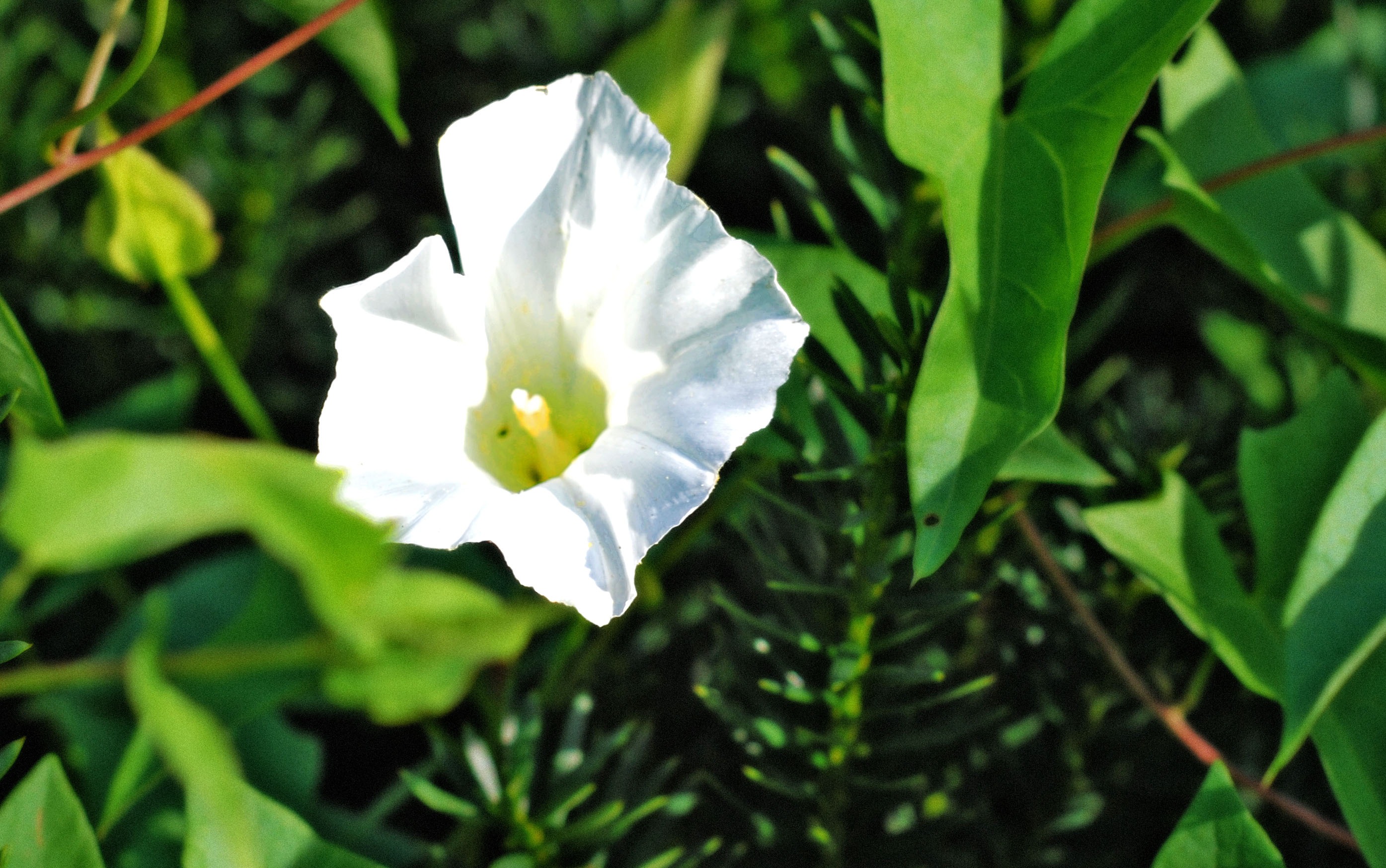 Morning Glory (Calystegia sepium), Rhode Island